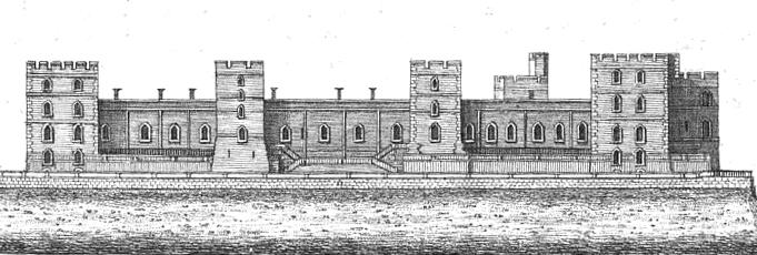 The east view of Windsor Castle in 1755